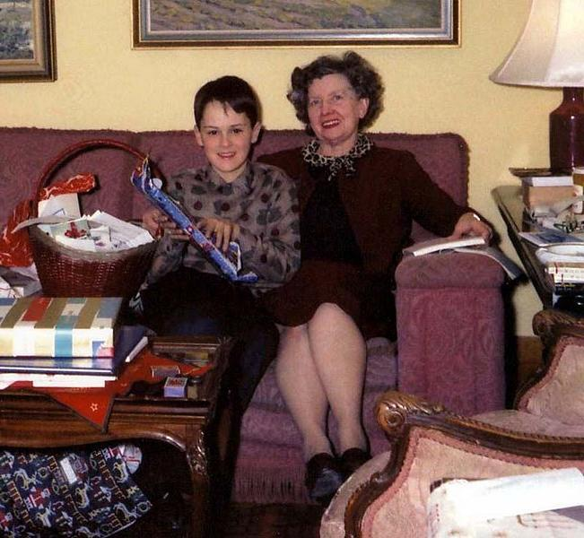 Anna A. Korn & Jacob Truedson Demitz (Lars Jacob) (then Lars Ridderstedt), as released by image creator FamSACPlace: 1112 S. Batavia Avenue, Batavia, Illinois